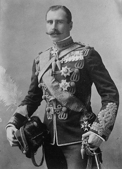 Alexander Cambridge, 1st Earl of Athlone. The Earl wears the Royal Victorian Order and the star ansd sash of the Order of the Rautenkrone of the German Kingdom of Saxen.